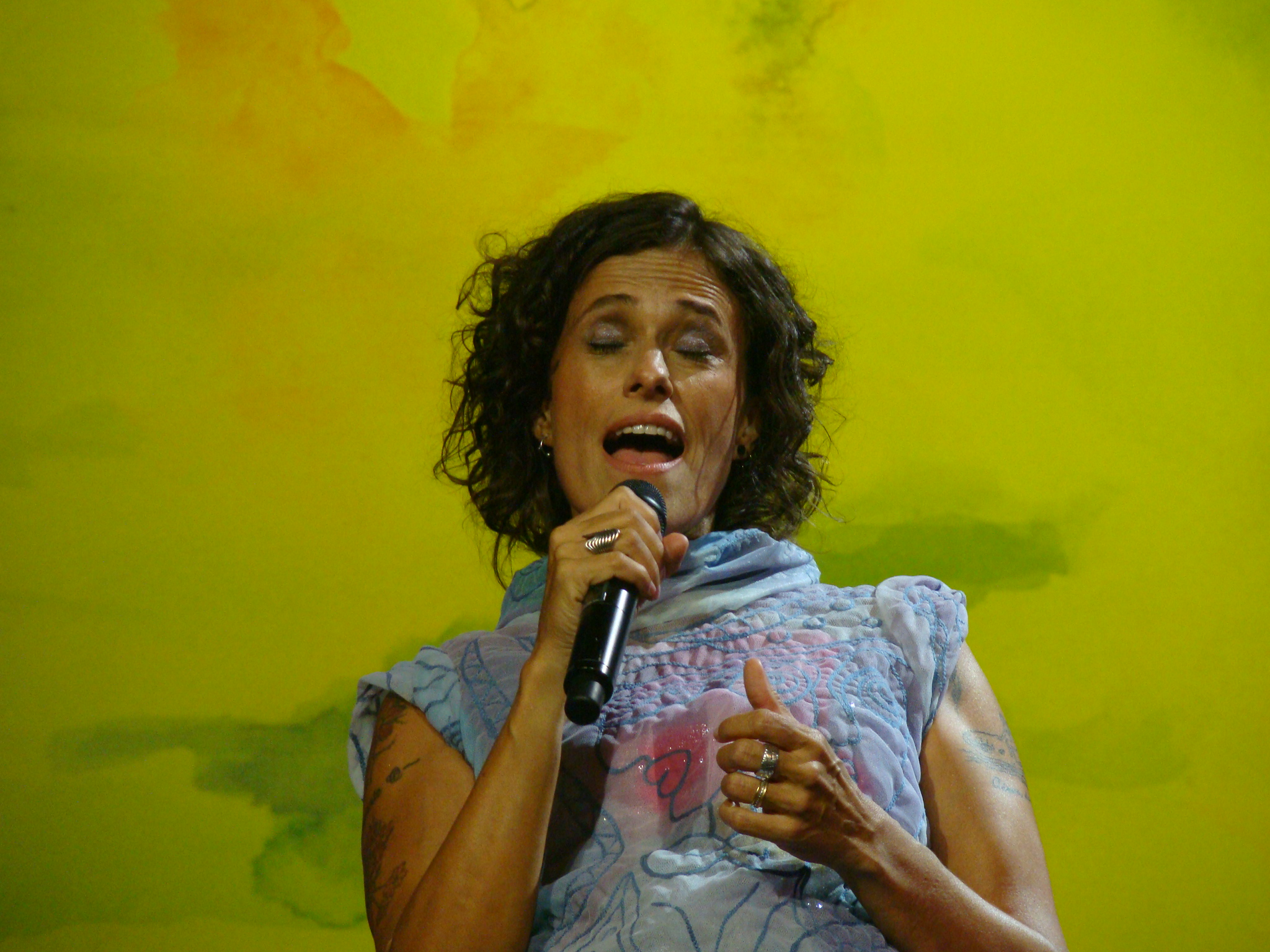 Zélia Duncan at the show of the making of DVD "Pelo Sabor do Gesto - Em Cena".